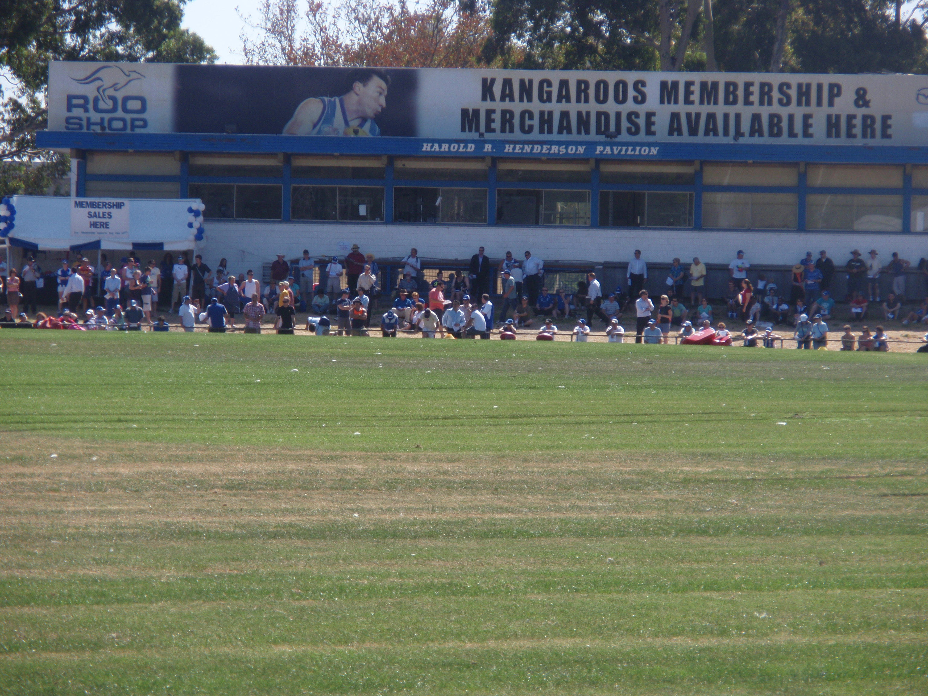 Harold Henderson Pavillion